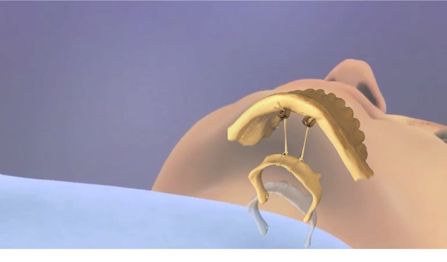 Hyoid suspension with advanced hyoid with ghost of base position - shown using Encore hyoid system by Siesta Medical